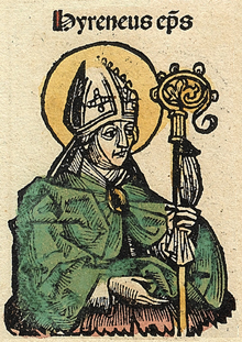 This is a part of a scan of an historical document: Title: Schedelsche Weltchronik or Nuremberg Chronicle